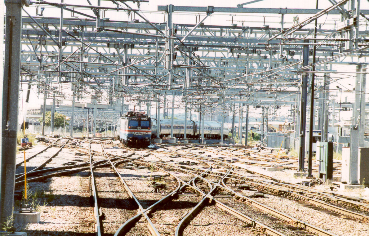 Amtrak AEM-7 #950 at the entrance to Boston South Station in September 2001